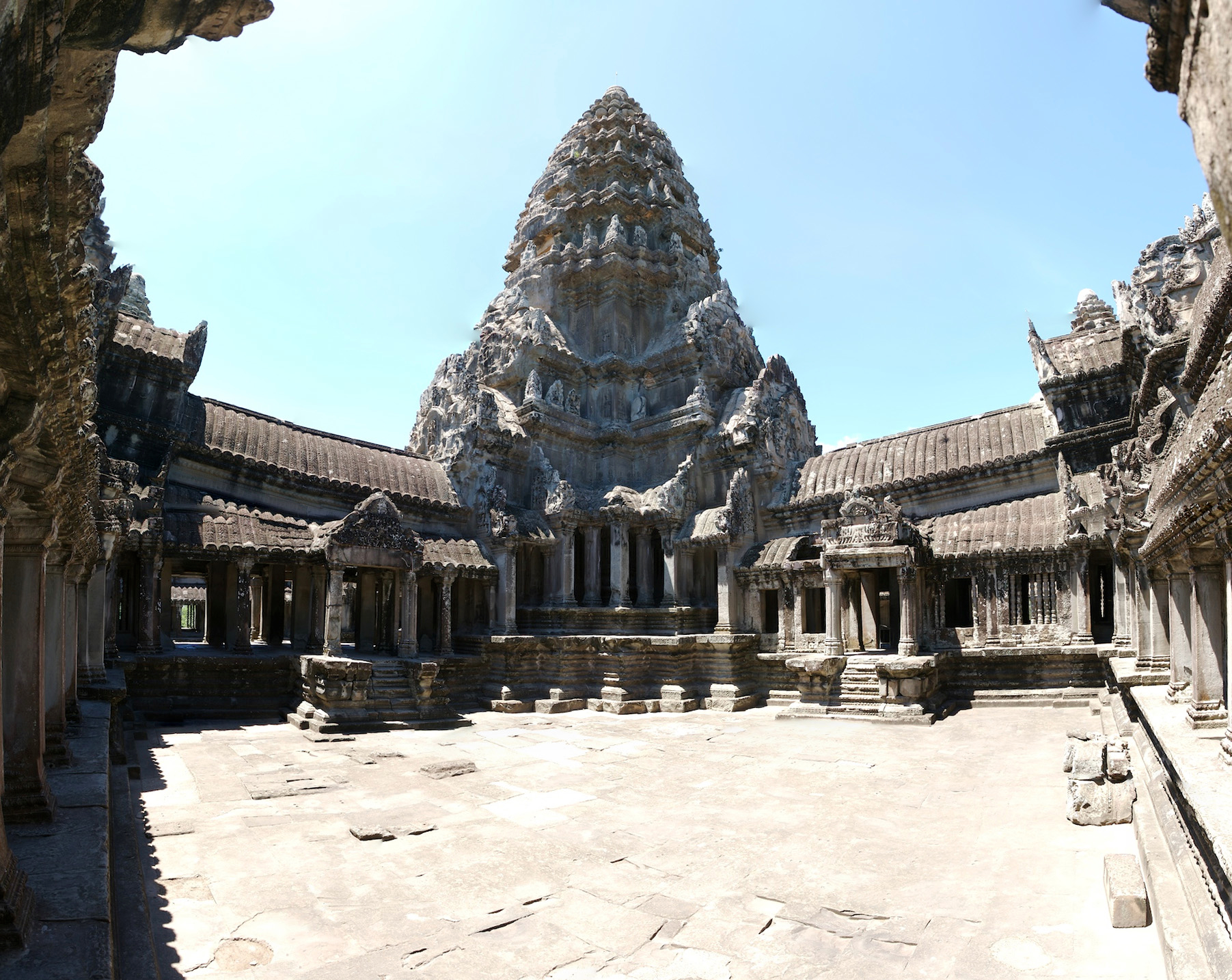 Panorama of the Upper Gallery, Angkor Wat